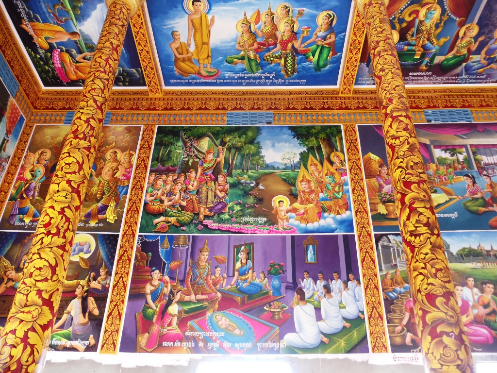 Mr.Men Sovann was Painting This Buddhist Temple